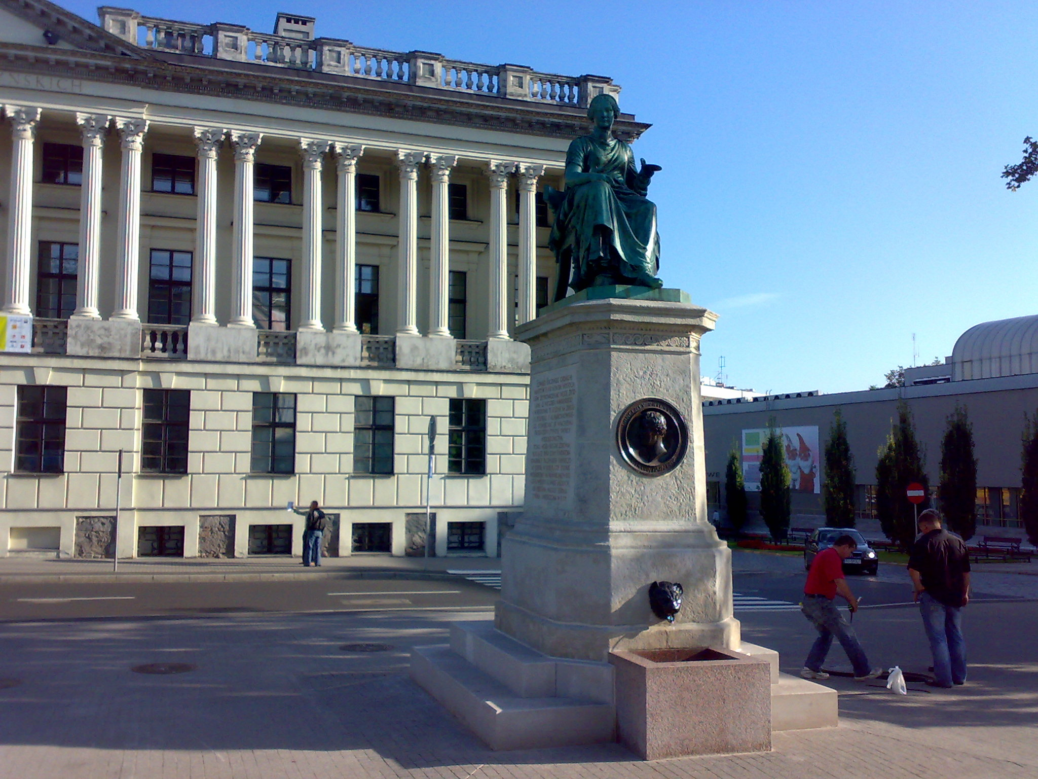 Higiea Monument in Poznan.